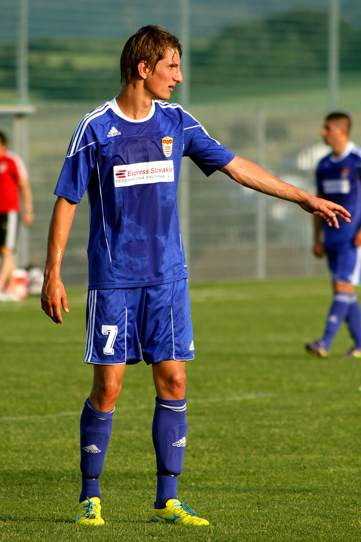 Friendly match SV Mattersburg vs FK Dukla Banská Bystrica (2:2) at 2013-06-21 in Mattersburg. – The photo shows Martin Chrien (FK Dukla Banská Bystrica).